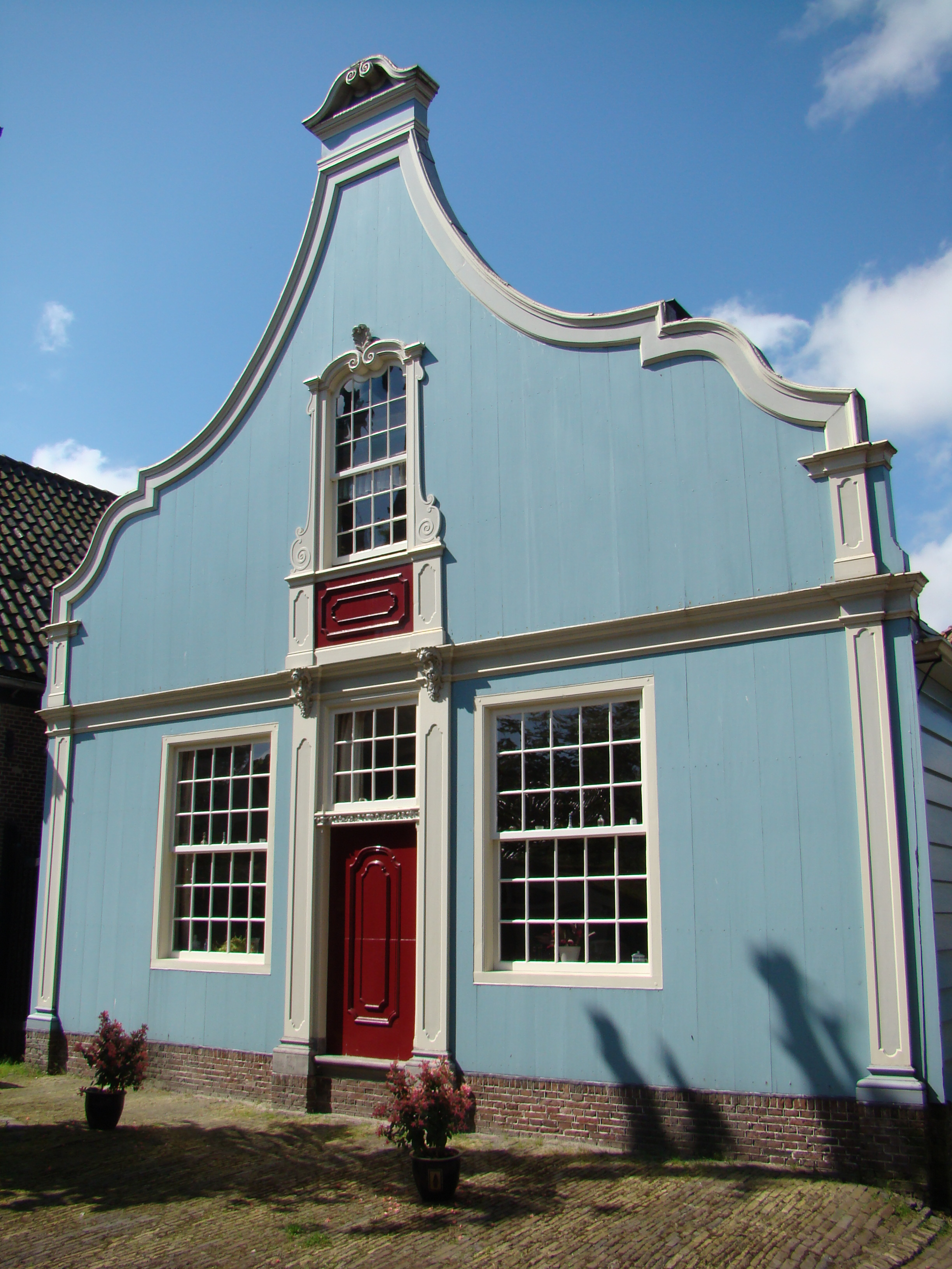 Impressions of Broek in Waterland, Netherlands Impressions of Broek in Waterland